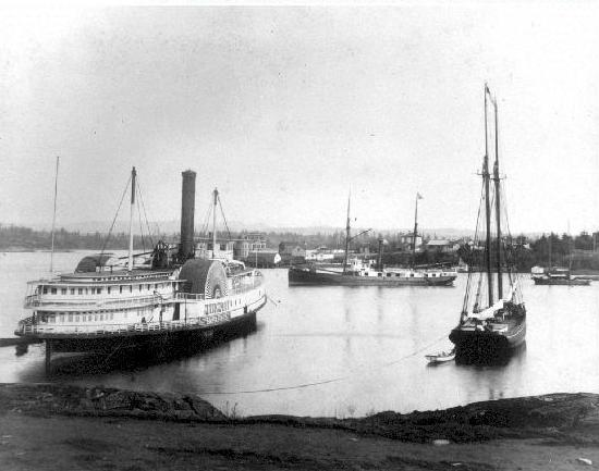 Large sidewheel steamer Yosemite on left side of photograph, with schooner Marguerite moored on right, in Victoria, BC harbor 1890s.